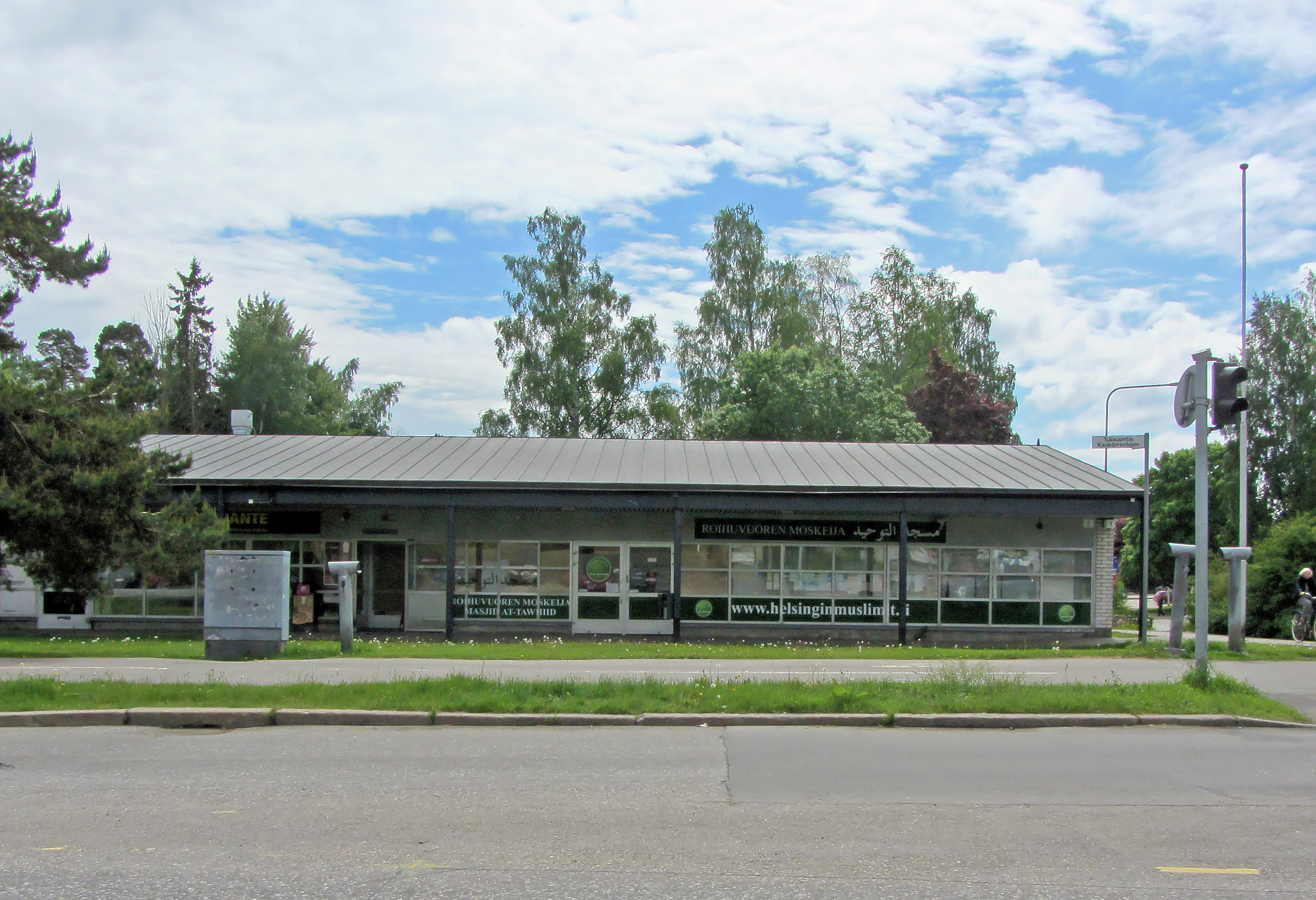 The Roihuvuori Mosque in Helsinki, Finland